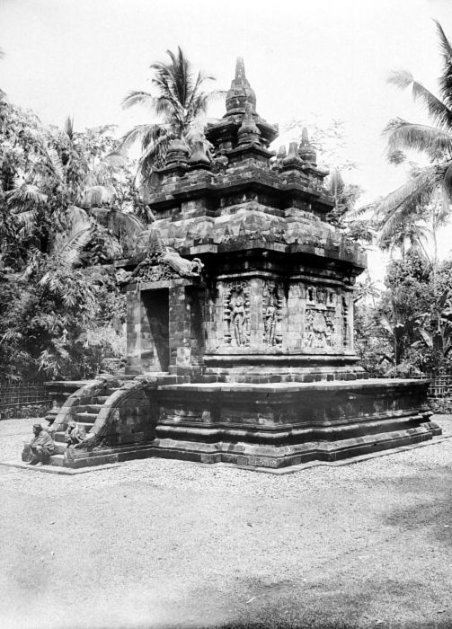 The Candi Pawon